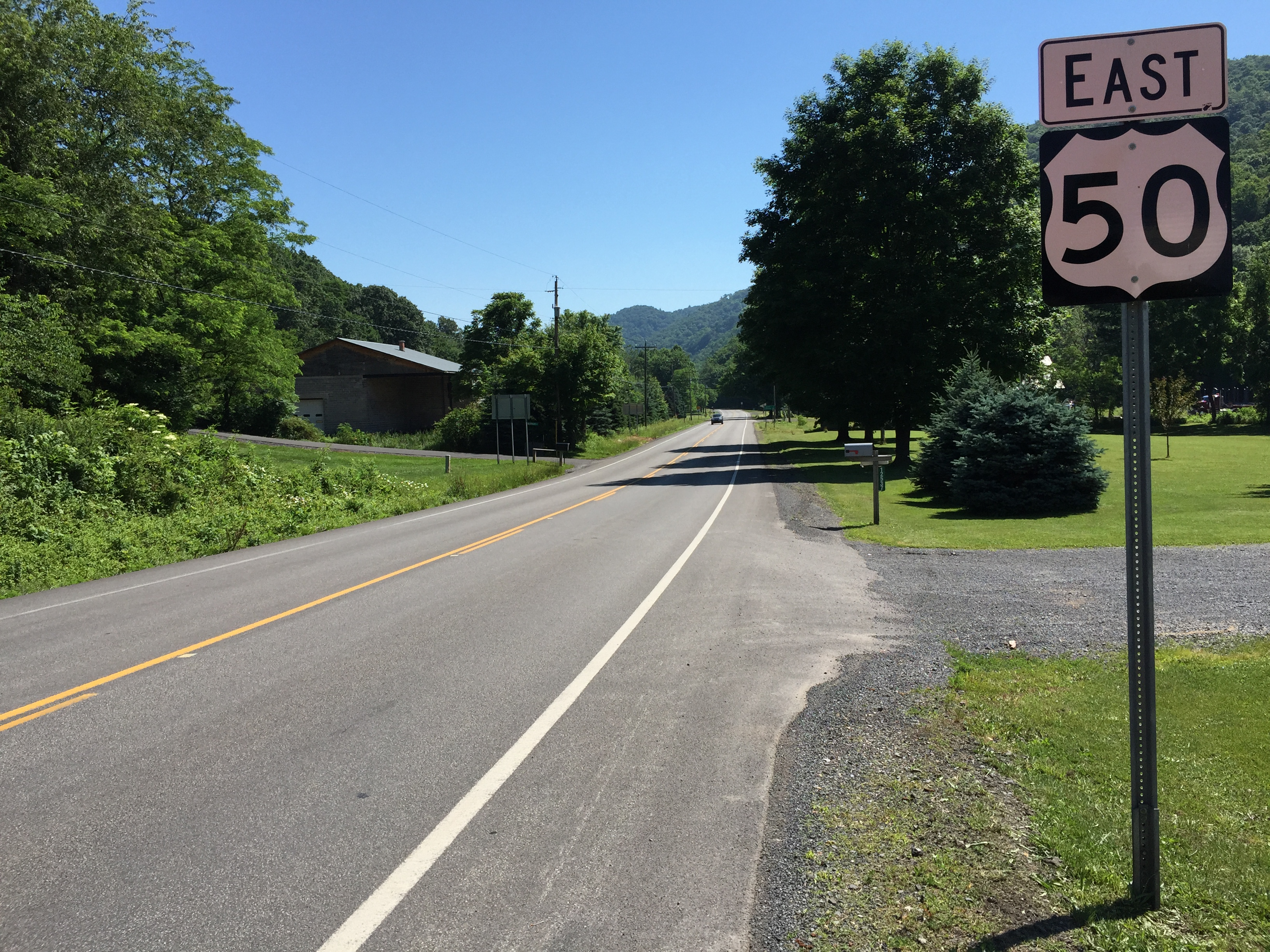 View east along U.S. Route 50 (George Washington Highway) just east of West Virginia State Route 93 (Laurel Dale Road) in Claysville, Mineral County, West Virginia